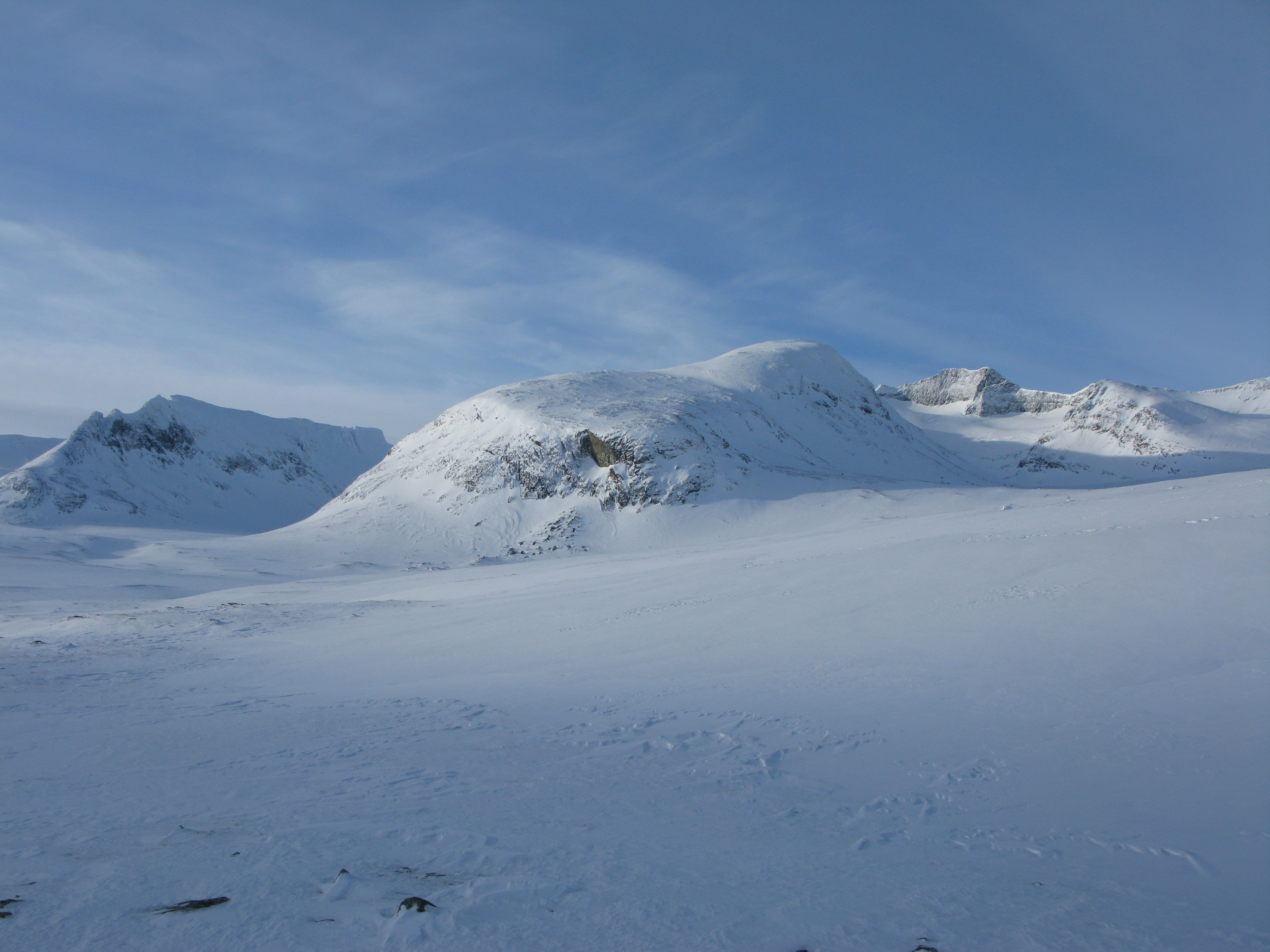 Sylarna mountain range in winter. Česky: Pohoří Sylarna v zimě.